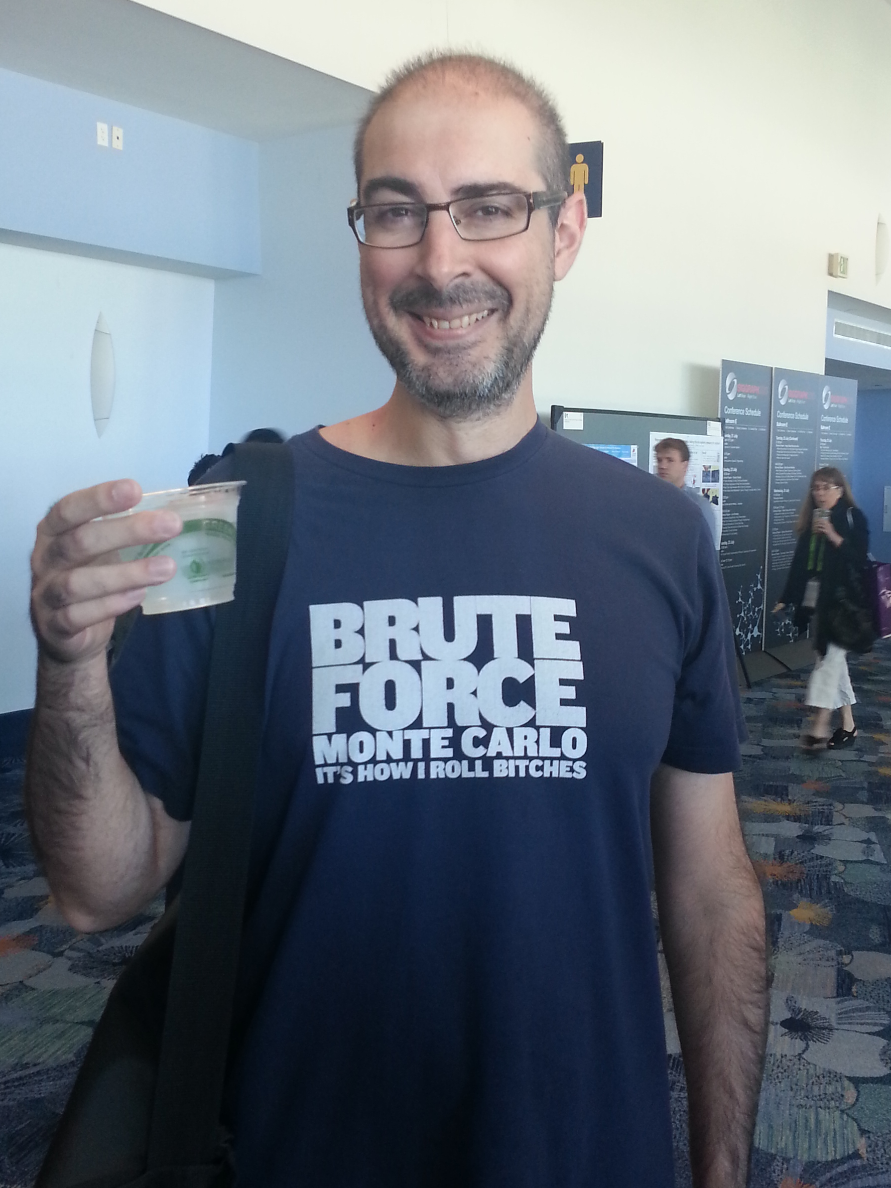 Marcos Fajardo, the creator and chief architect of Arnold, a path tracing 3D rendering application, at the 2013 SIGGRAPH.